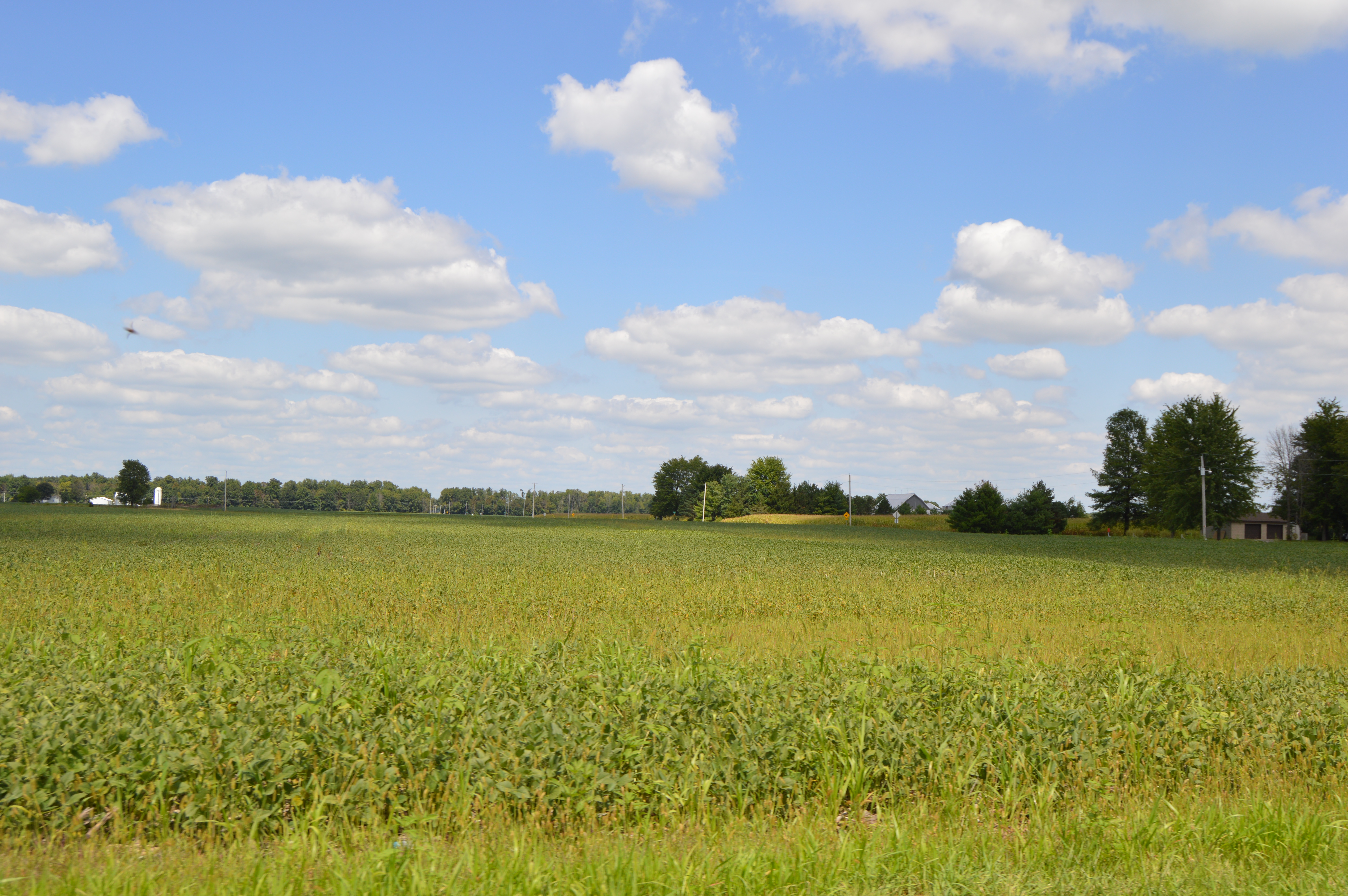 Looking north from Yale Road on the southern border of Richland Township, Marion County, Ohio, United States.